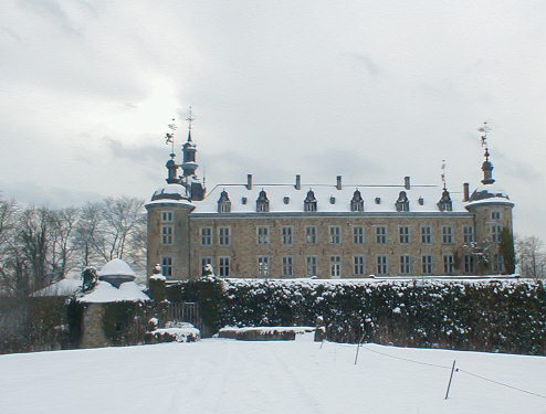 Castle of Mirwart (Belgium) in winter. Walon: Tchestea d' Mirwå (Beldjike), e l' ivier.